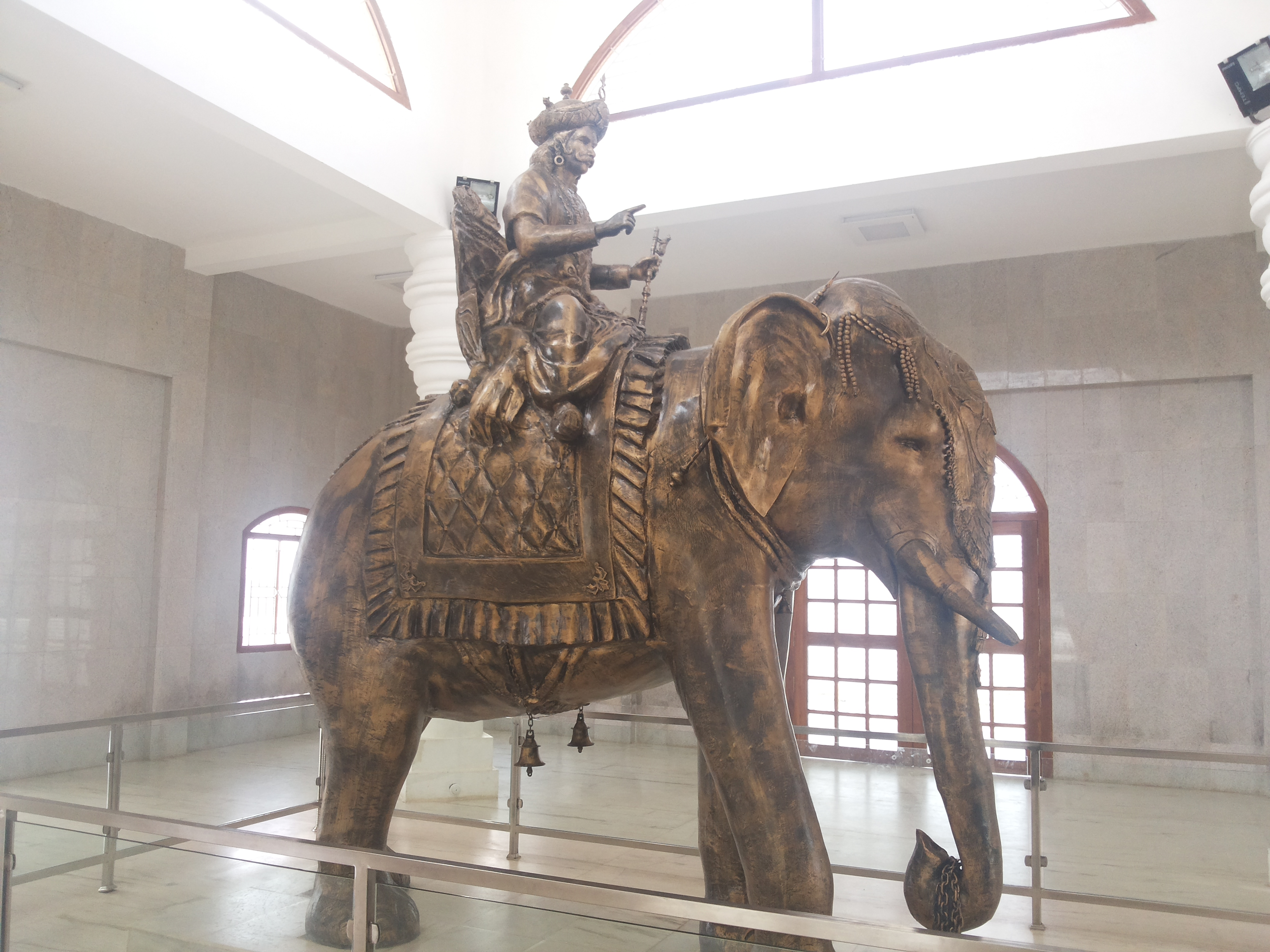 Karikaala Chozan Memorial Building